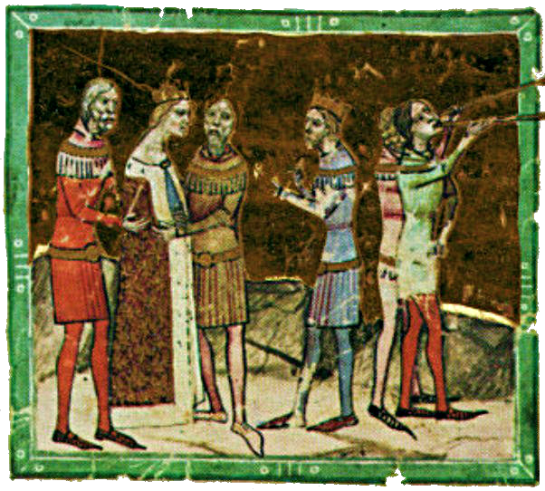 Wedding of Charles I of Hungary and Elizabeth of Poland